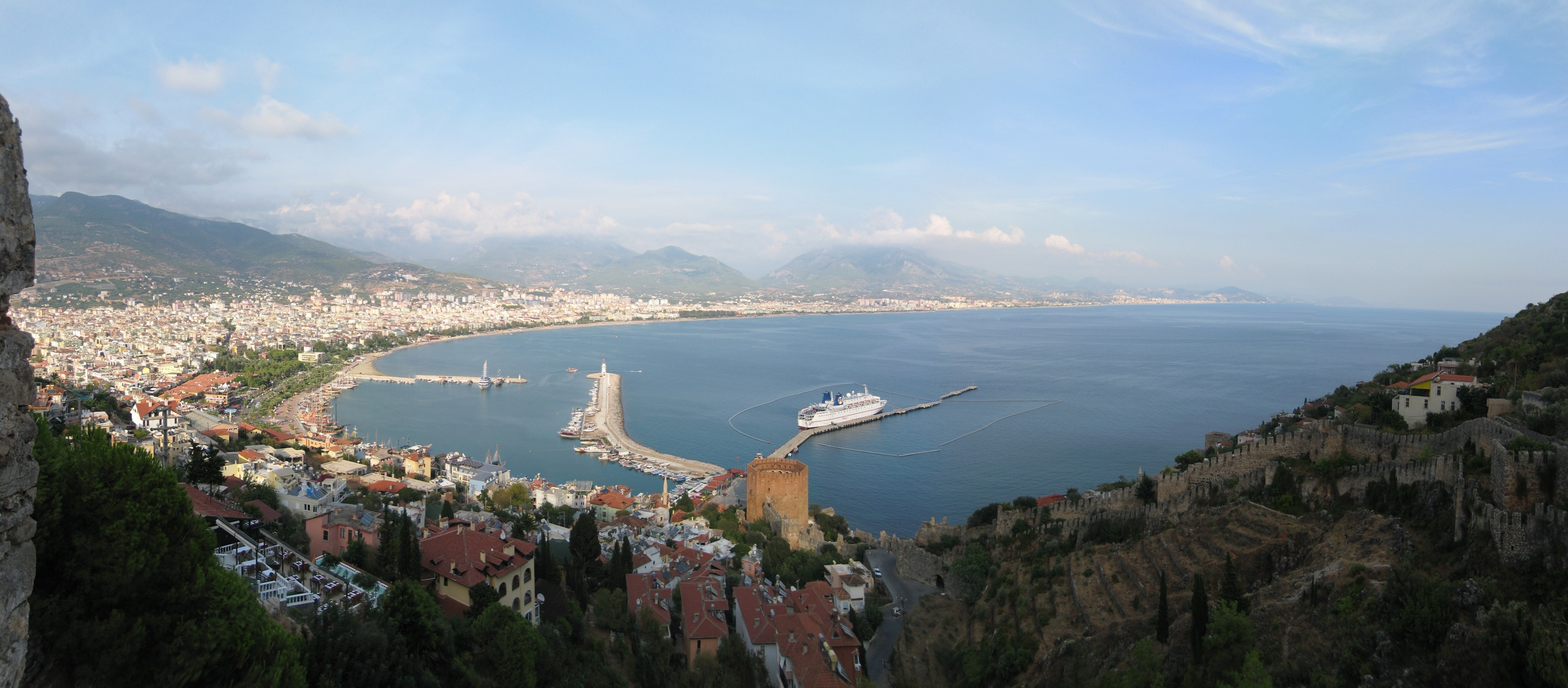 Panorama of the eastern part of Alanya taken from the castle